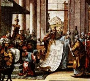 Hiram shows the planes to Solomon. Engraving of J.J. Scheuchzer, «Physica Sacra Iconibus Illustrata», Augsburg, 1731.